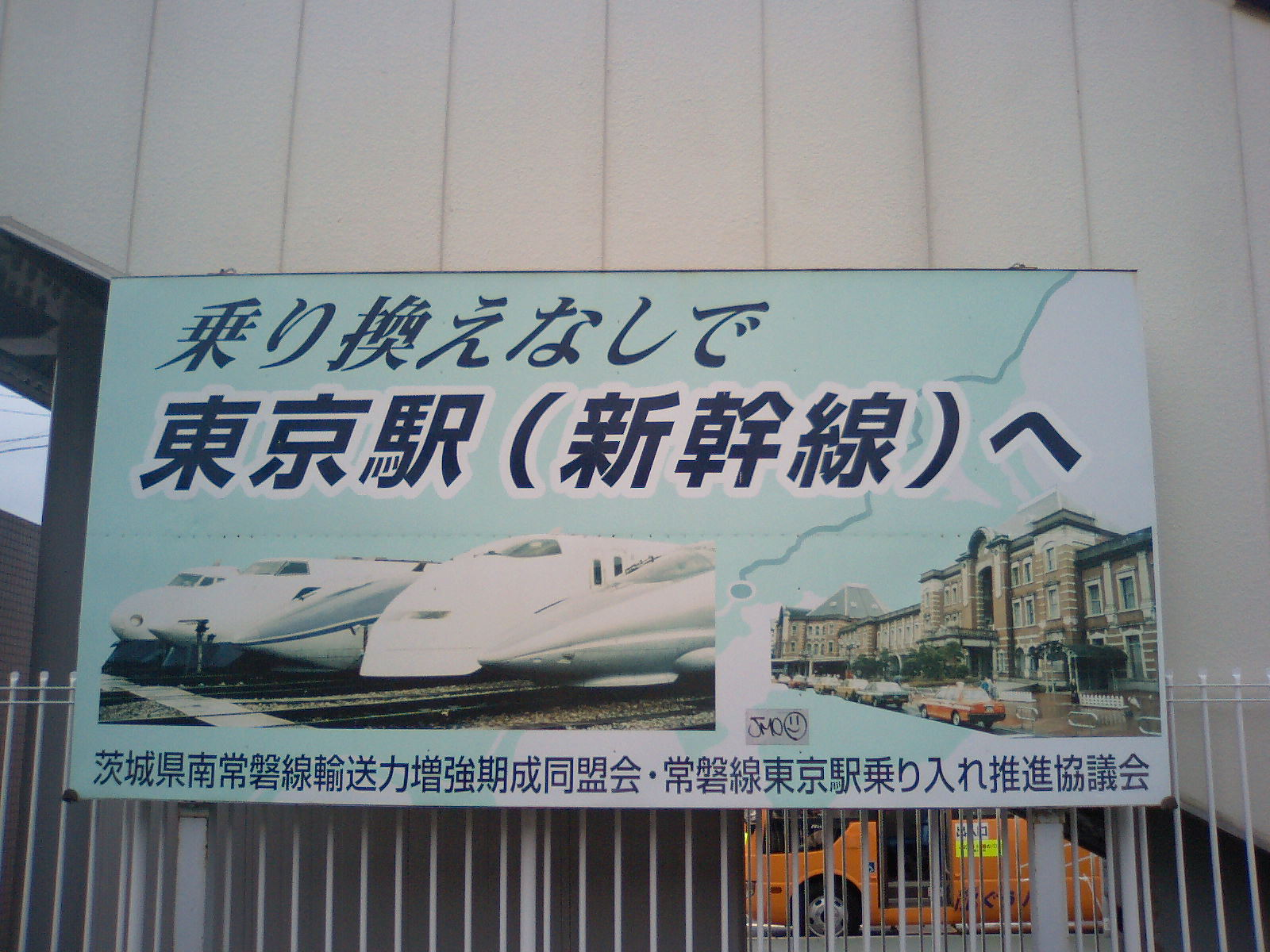 A kanban of Jōban Line Extension (To Tokyo Station) request